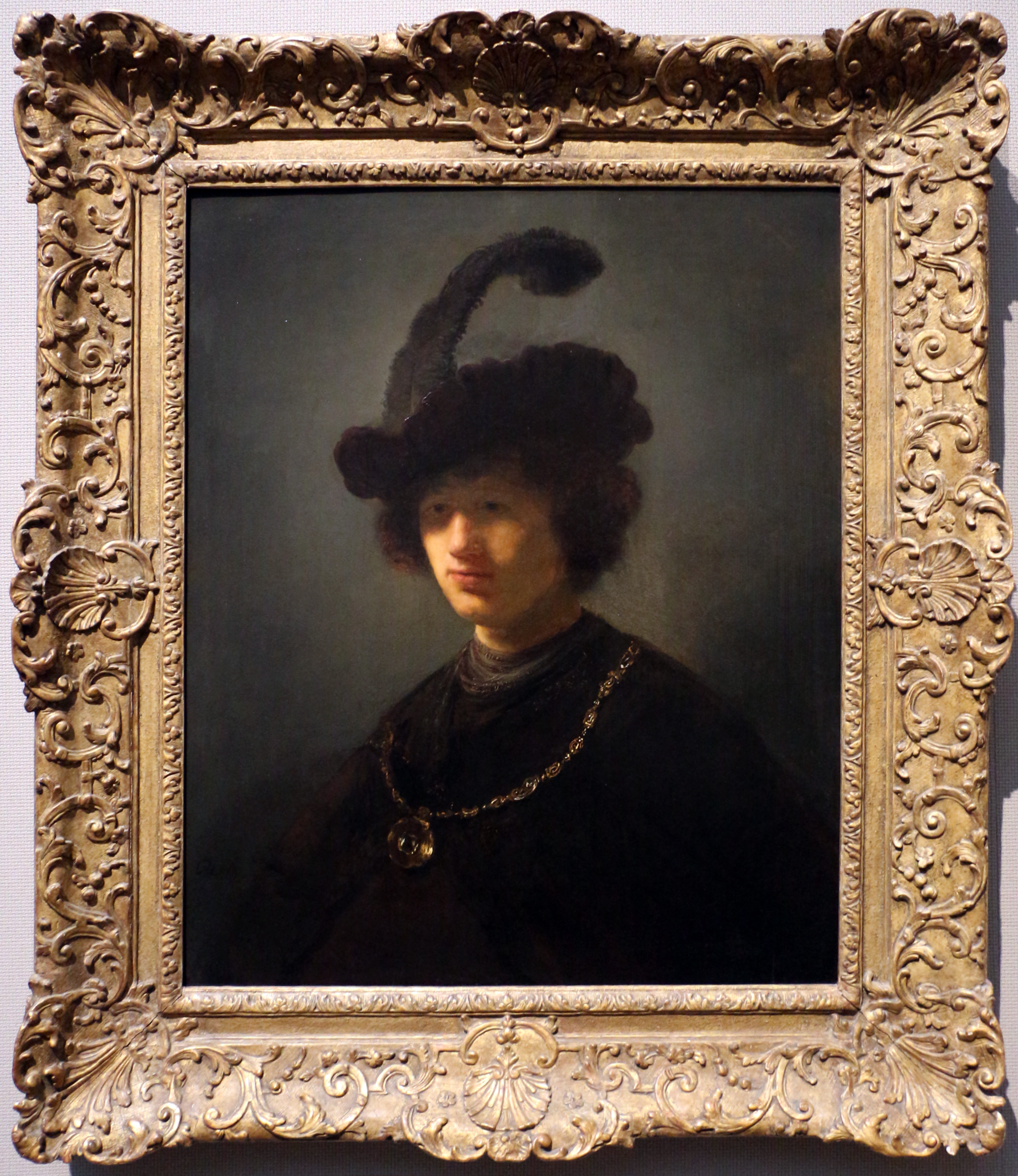 Paintings in the Toledo Museum of Art